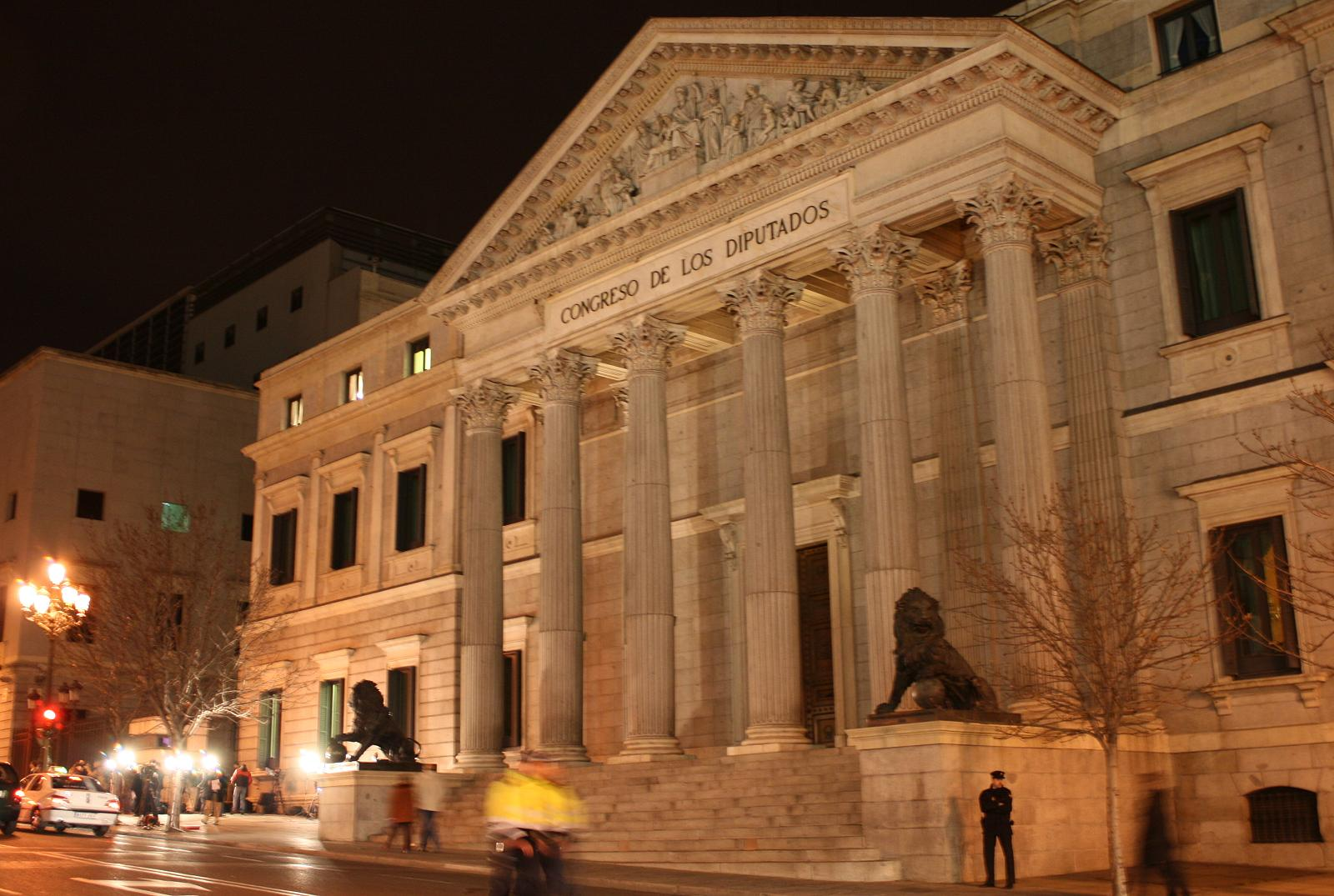 Night view of the main façade of the Spanish Congress of Deputies building, in Madrid. Projected in 1842 by architect Narciso Pascual y Colomer (1808–1870) and built between 1843 and 1850.